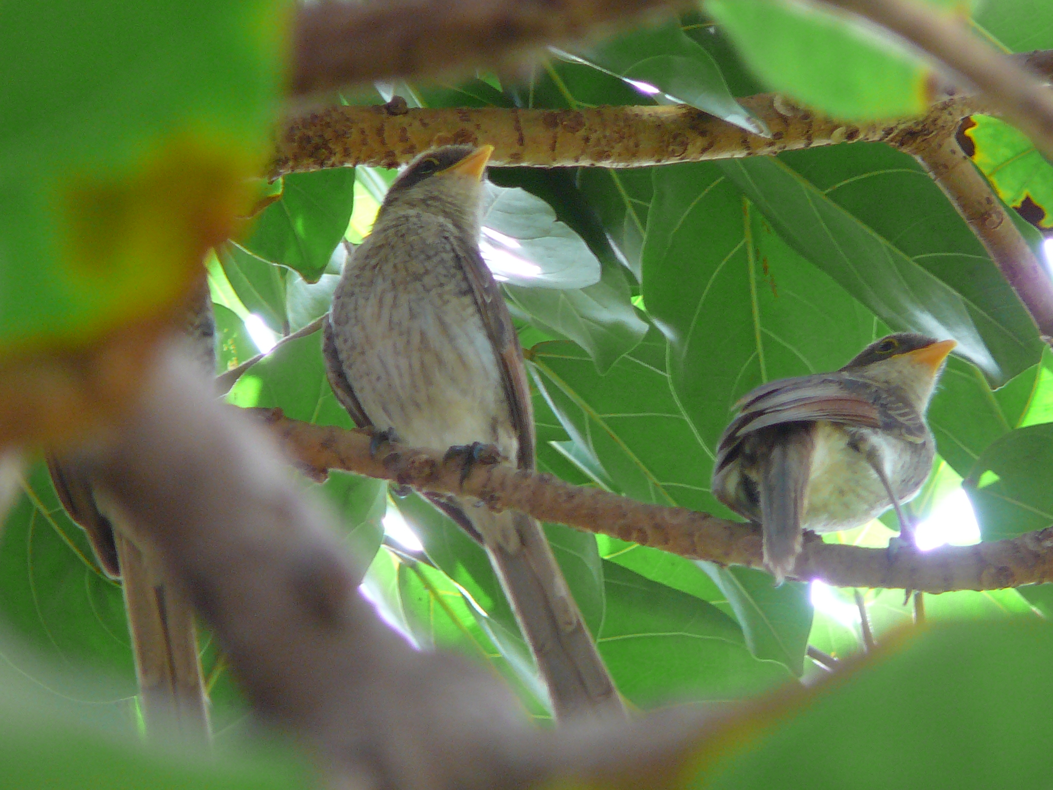 Yellow-billed Shrikes